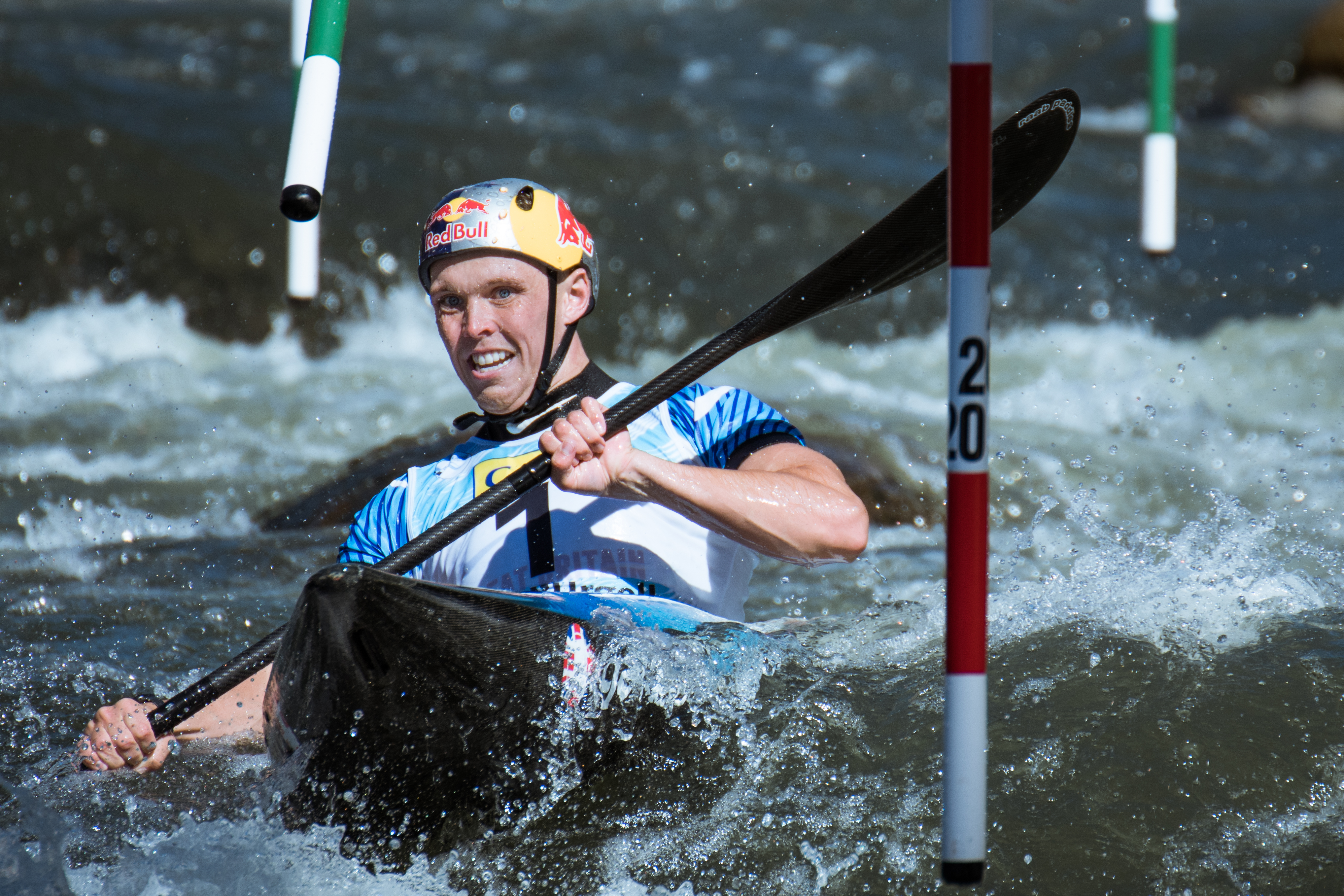 Joseph Clarke during the 2019 Canoe Slalom World Championships in La Seu d'Urgell, Spain.